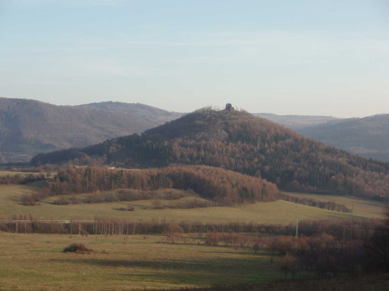 Ruins of castle Šumná, near Klášterec nad Ohří, Czech republic, northern view